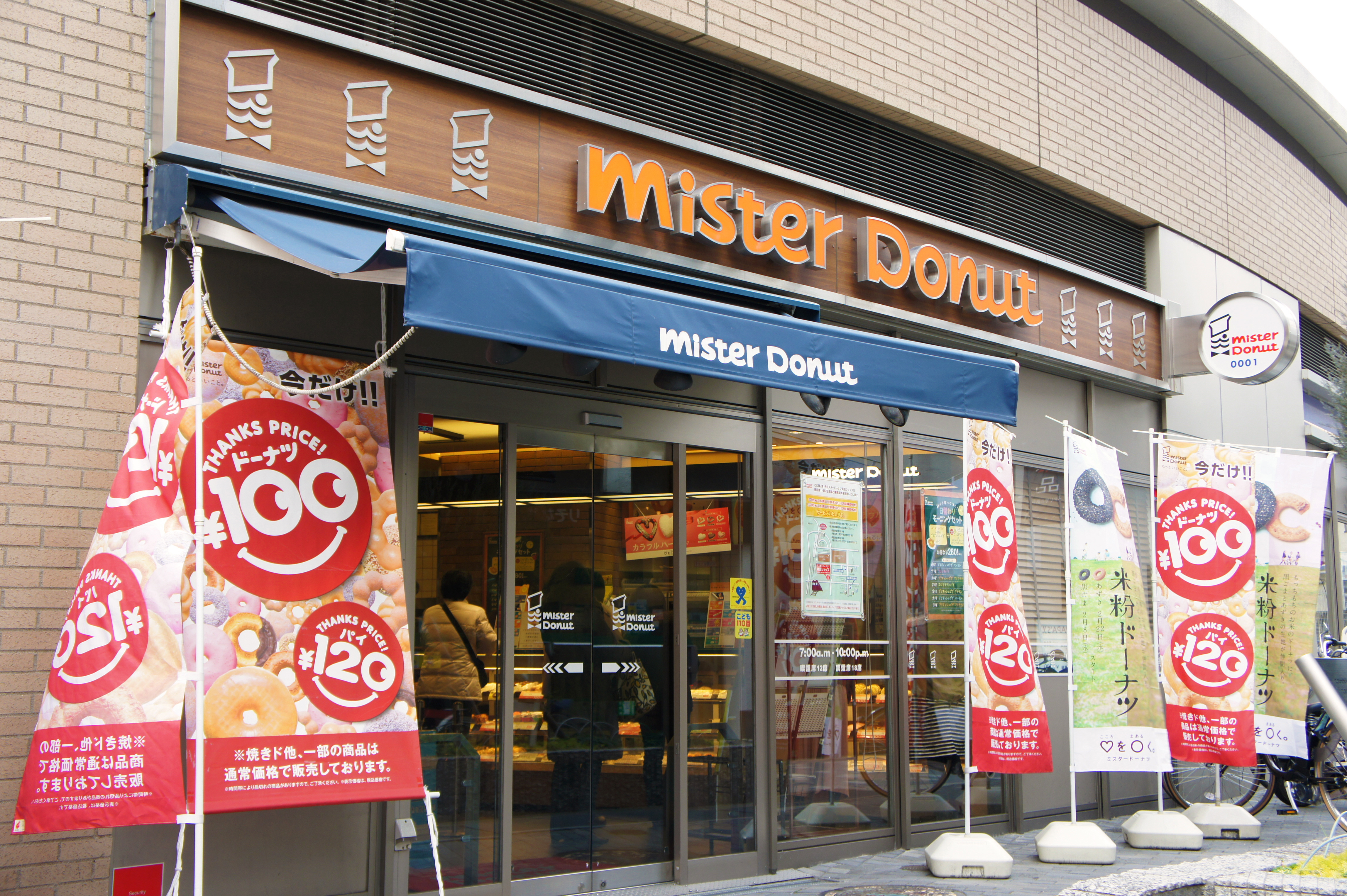 Mister Donut Minoh Shop, 6-1-20 Minoh Minoh-City Osaka Japan.